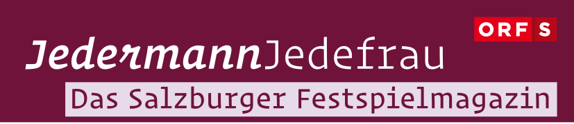 Logo JedermannJedefrau ORF S